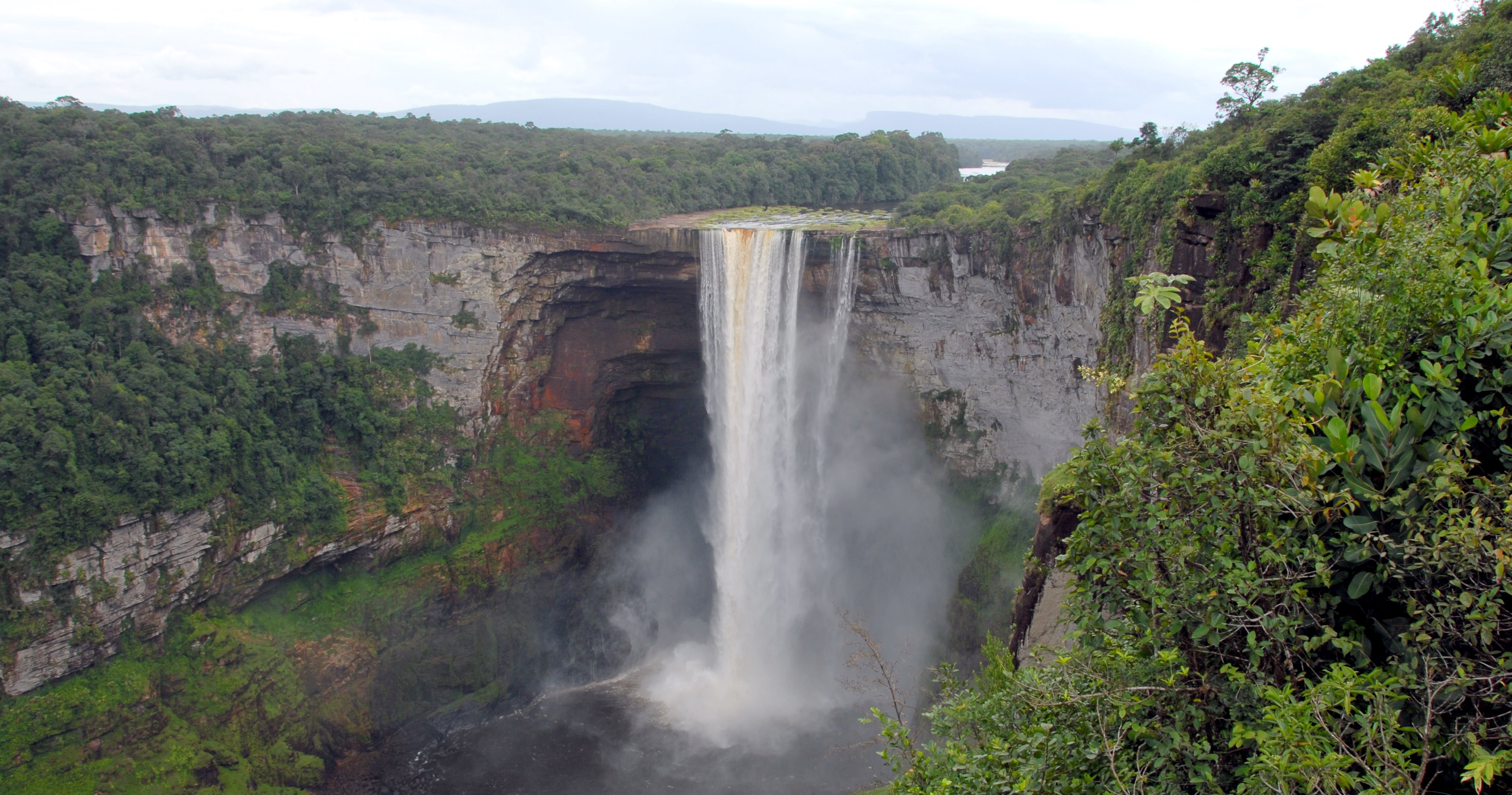 Kaieteur Falls is a high-volume waterfall on the Potaro River in central Guyana.